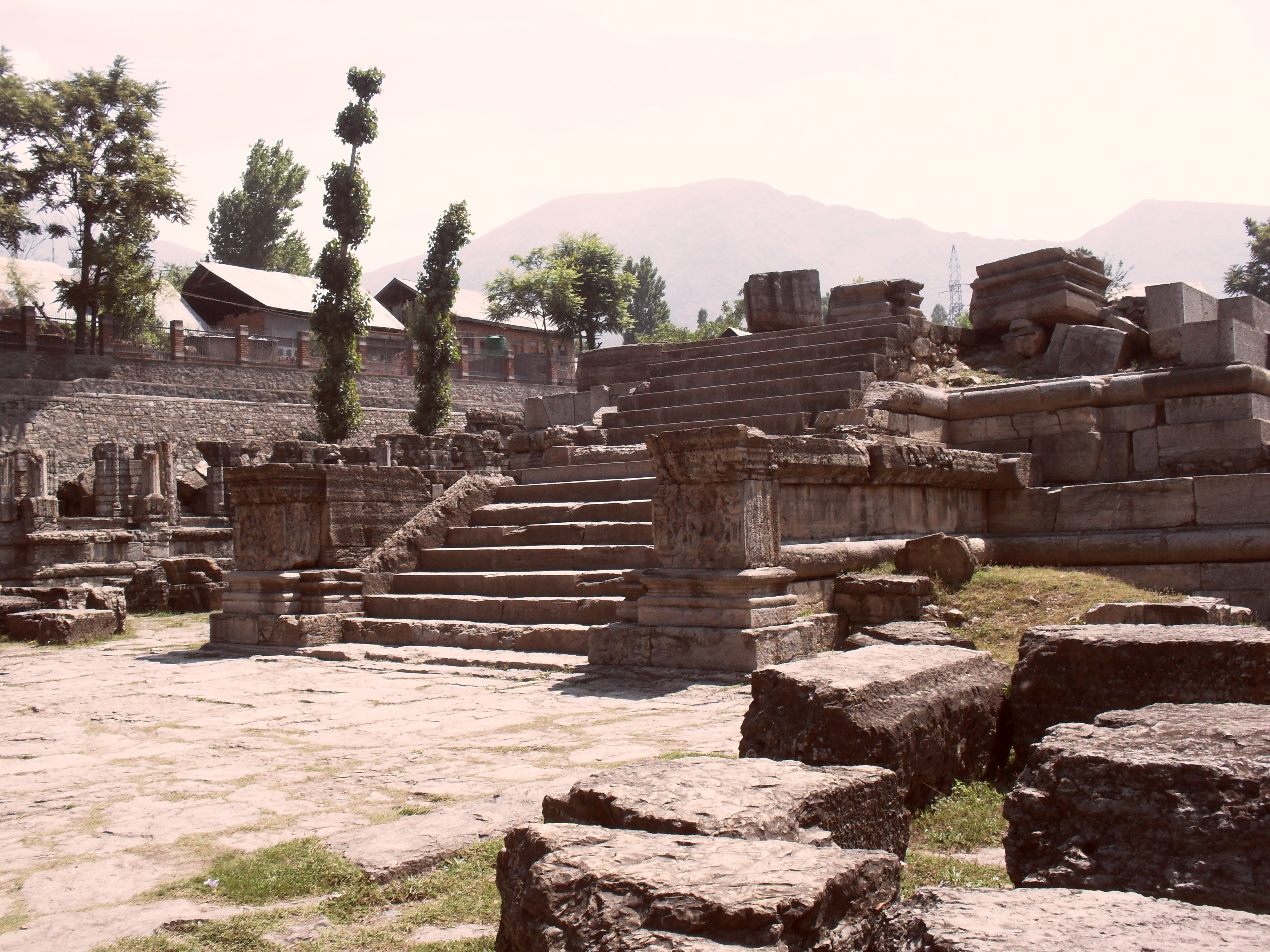 Group of Ancient Temples: it is a complex if many temples in a place much ruined .King Narendraditya Khinnkhila (250-214 B.C.) consecrated shrines to Shiva Bhuteshvara here.